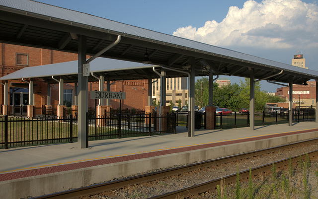 Durham Station